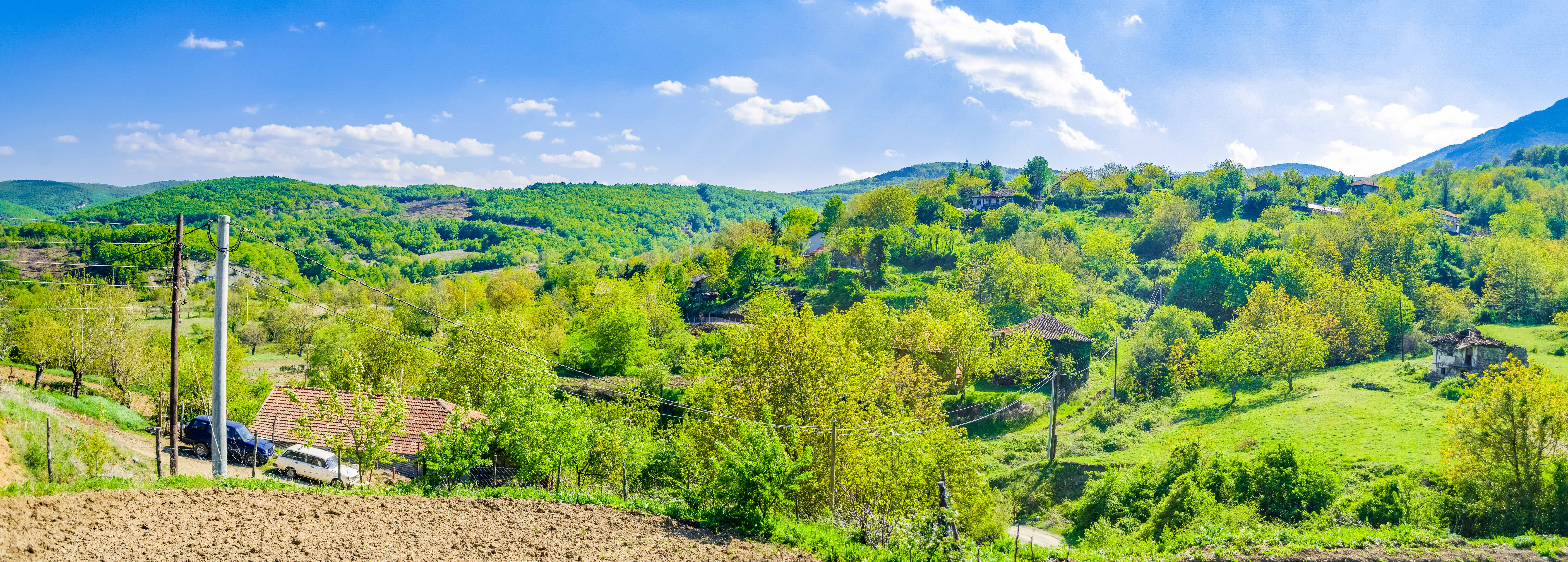 View of the village Sermenin